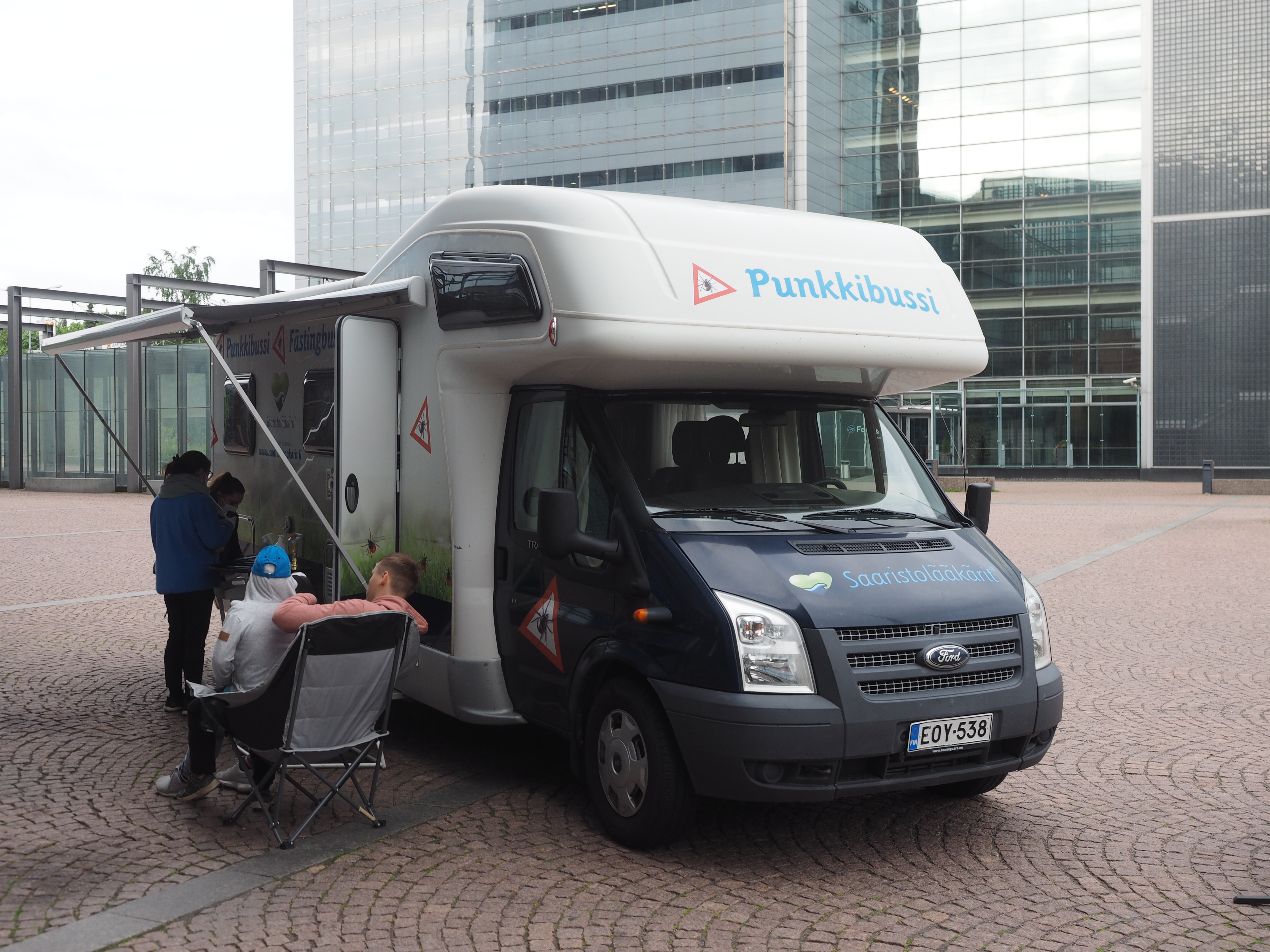 Punkkibussi ("the tick bus"), a mobile medical facility run by a private medical organisation, selling vaccinations against diseases spread by ticks.